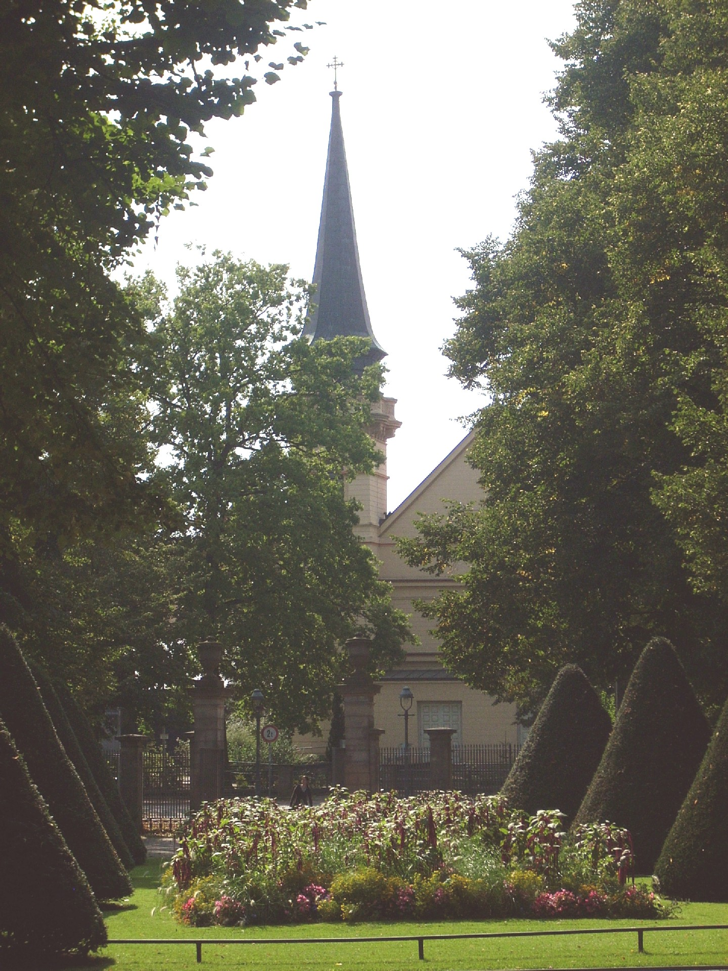 Celle, Park, St. Ludwig Catholic Church